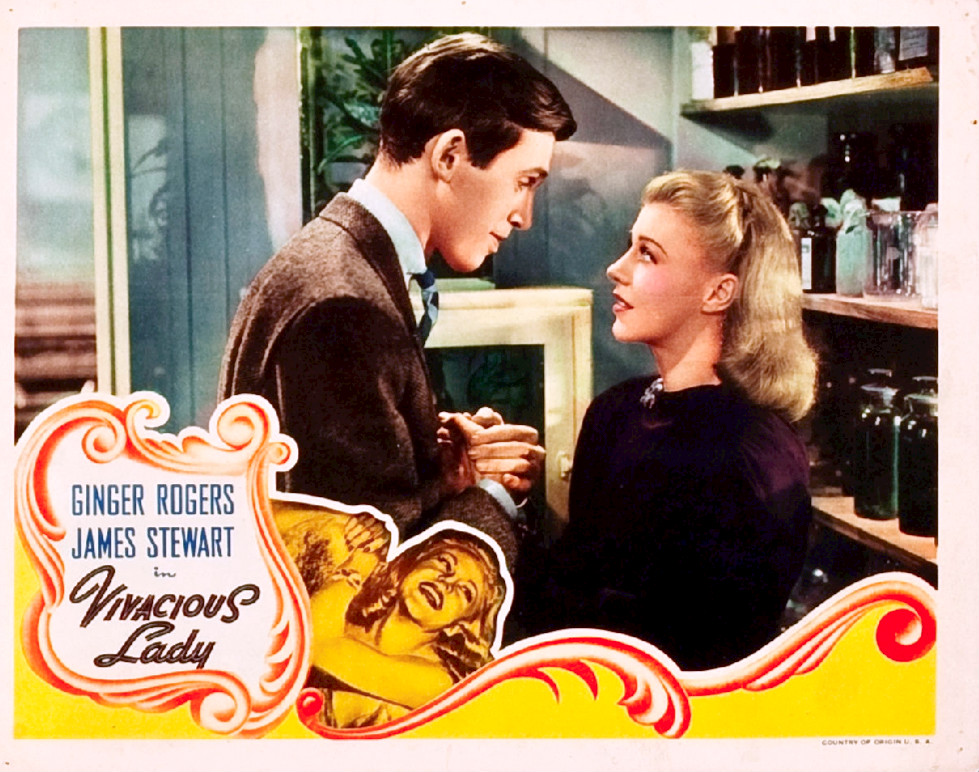 Lobby card for the 1938 film, Vivacious Lady. The item has no copyright markings on it as can be seen in the links above. At bottom right of uncropped copy is Country of Origin USA.